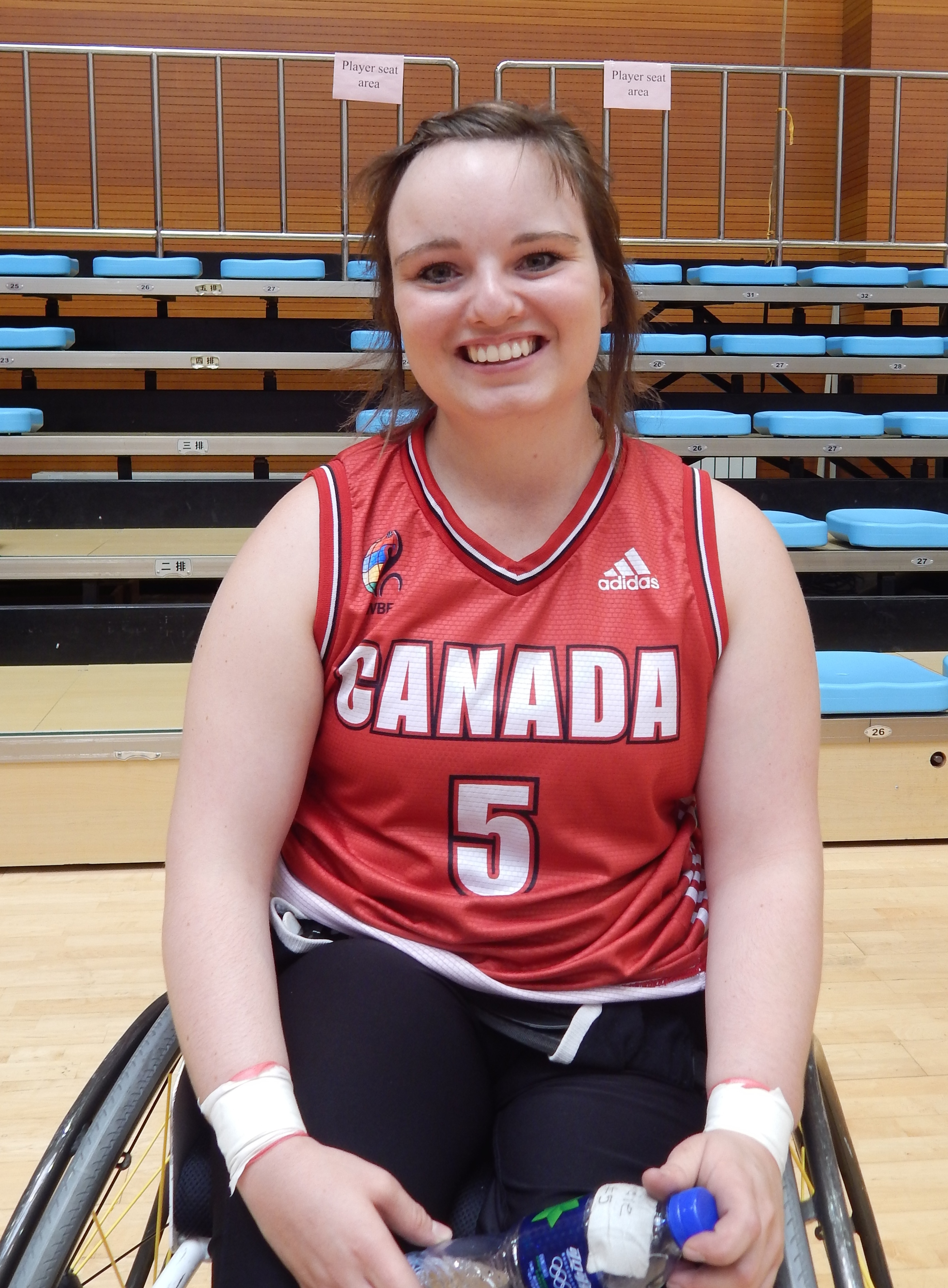 Wheelchair basketball - U25 Team Canada - Elodie Tessier